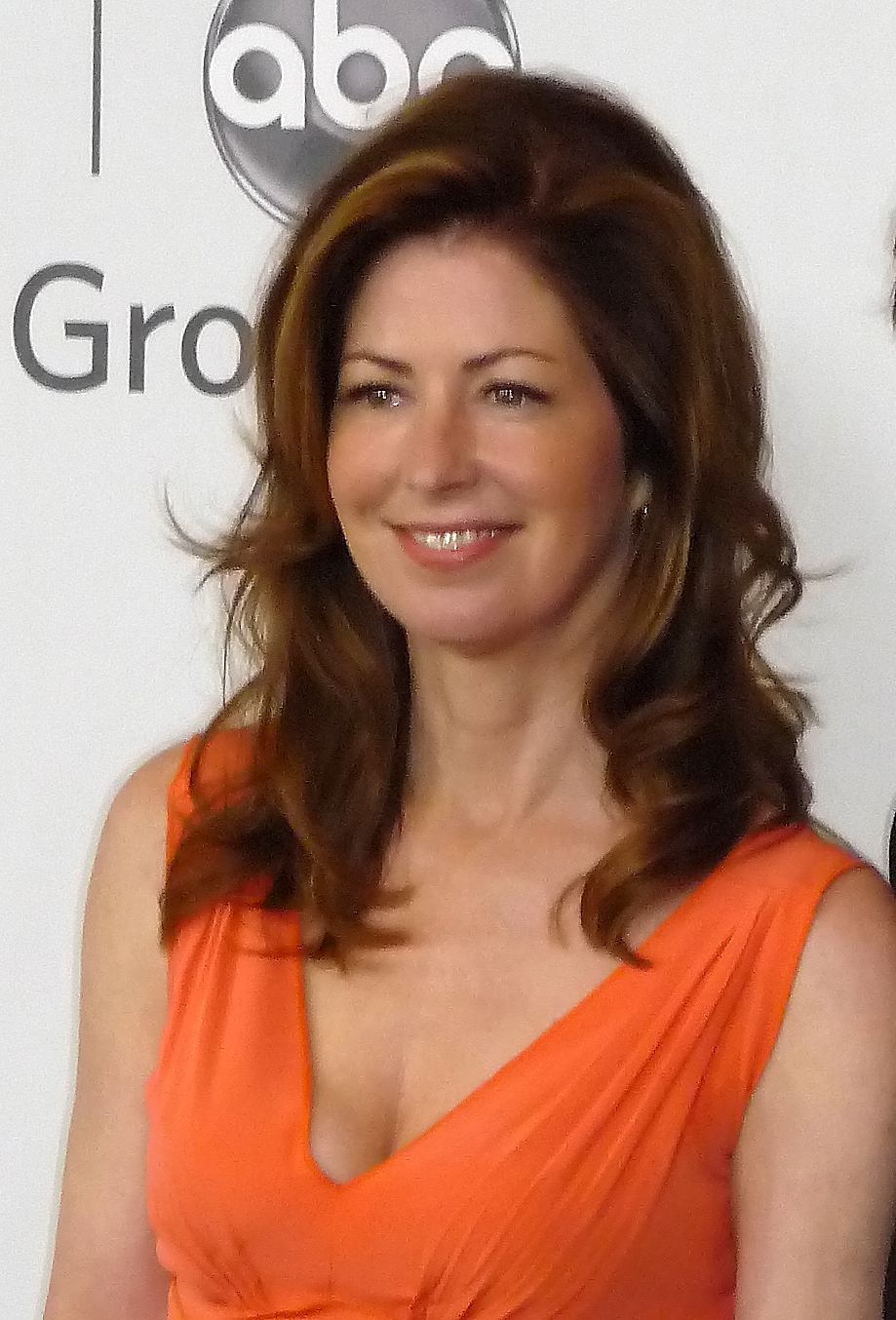 TCA 2010